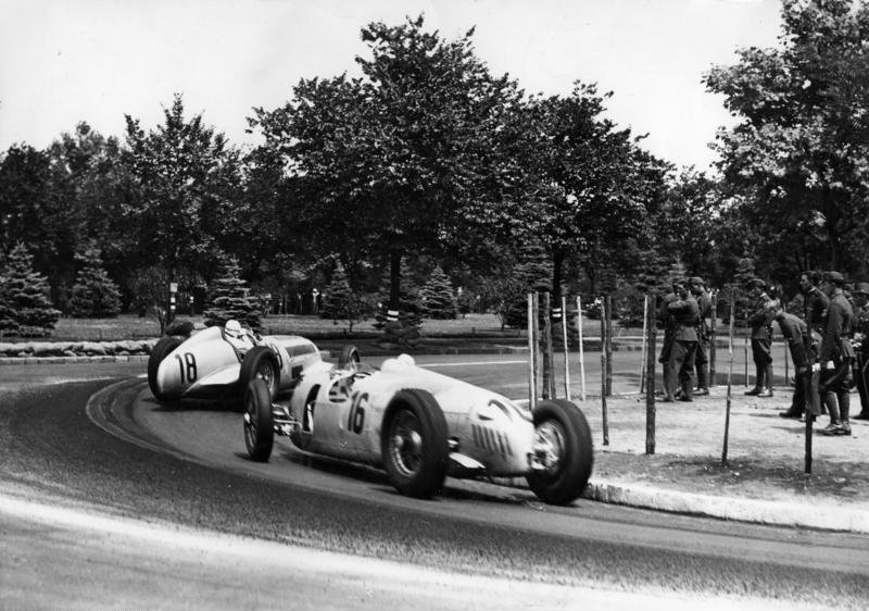 Rudolf Caracciola (in front) Bernd Rosemeyer racing at the 1936 Hungarian Grand Prix.